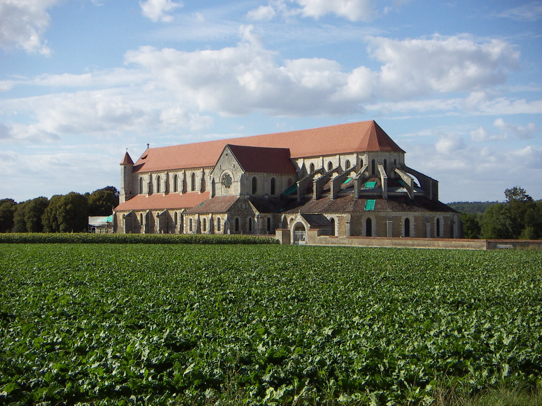 Pontigny Abbey